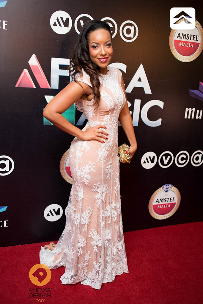 Jocelyn Dumas at the 2014 Africa Magic Viewers Choice Awards